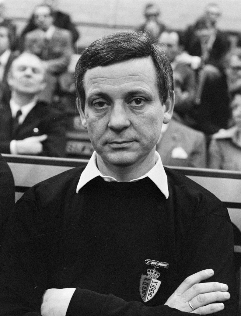 Emile Wafflard on the 1976 European Championship in Balkline 47/2.